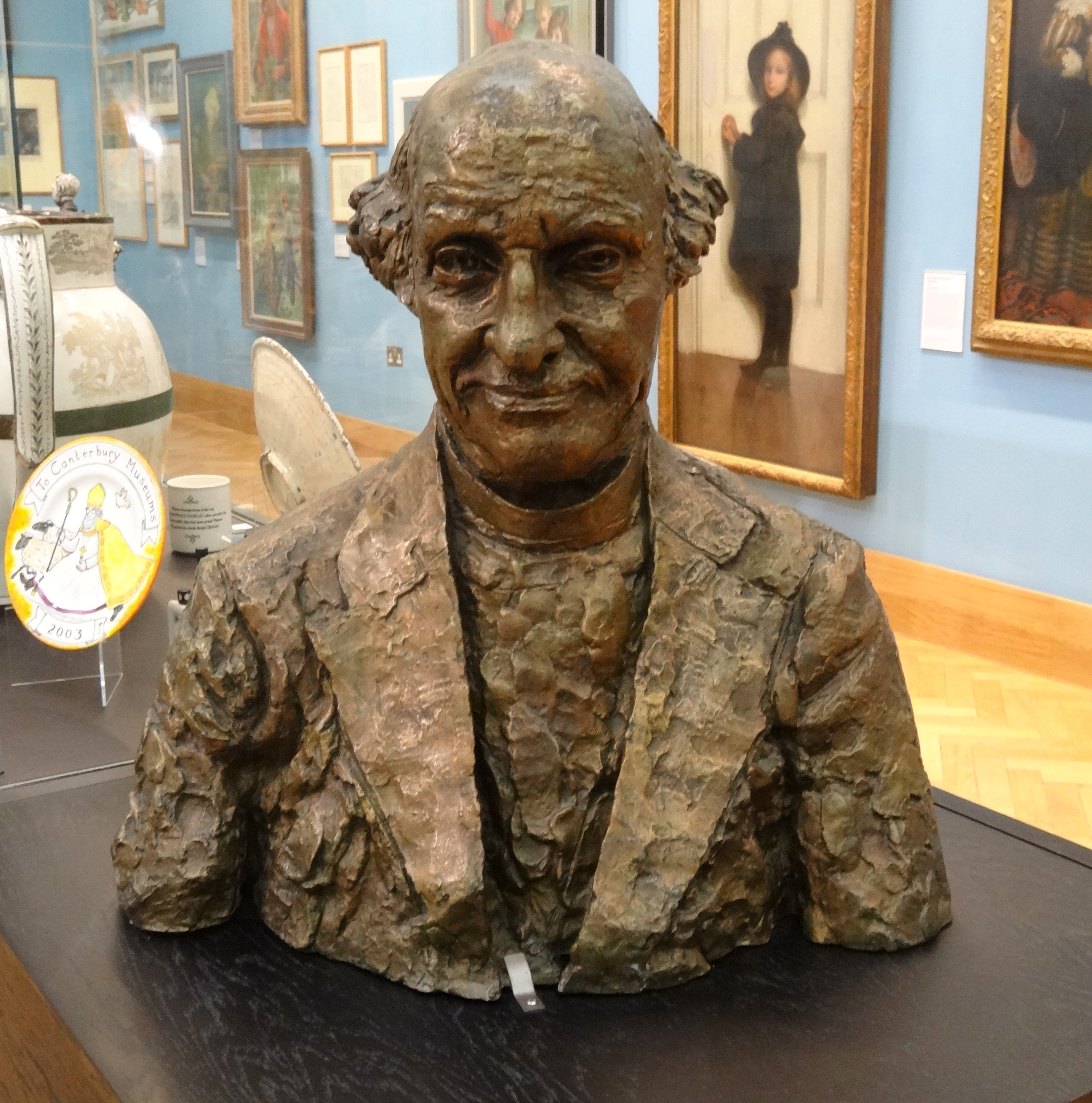 Hewlett Johnson by Jacob Epstein, Beaney Institute